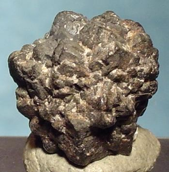 Arsenic Locality: Akadani mine (Akatani mine), Fukui Prefecture, Chubu Region, Honshu Island, Japan (Locality at ) Size: 1.2 x 1.2 x 0.9 cm. A RARE, OLD and CLASSIC thumbnail of gray nubby natural arsenic crystals from an uncommon Japanese locality.